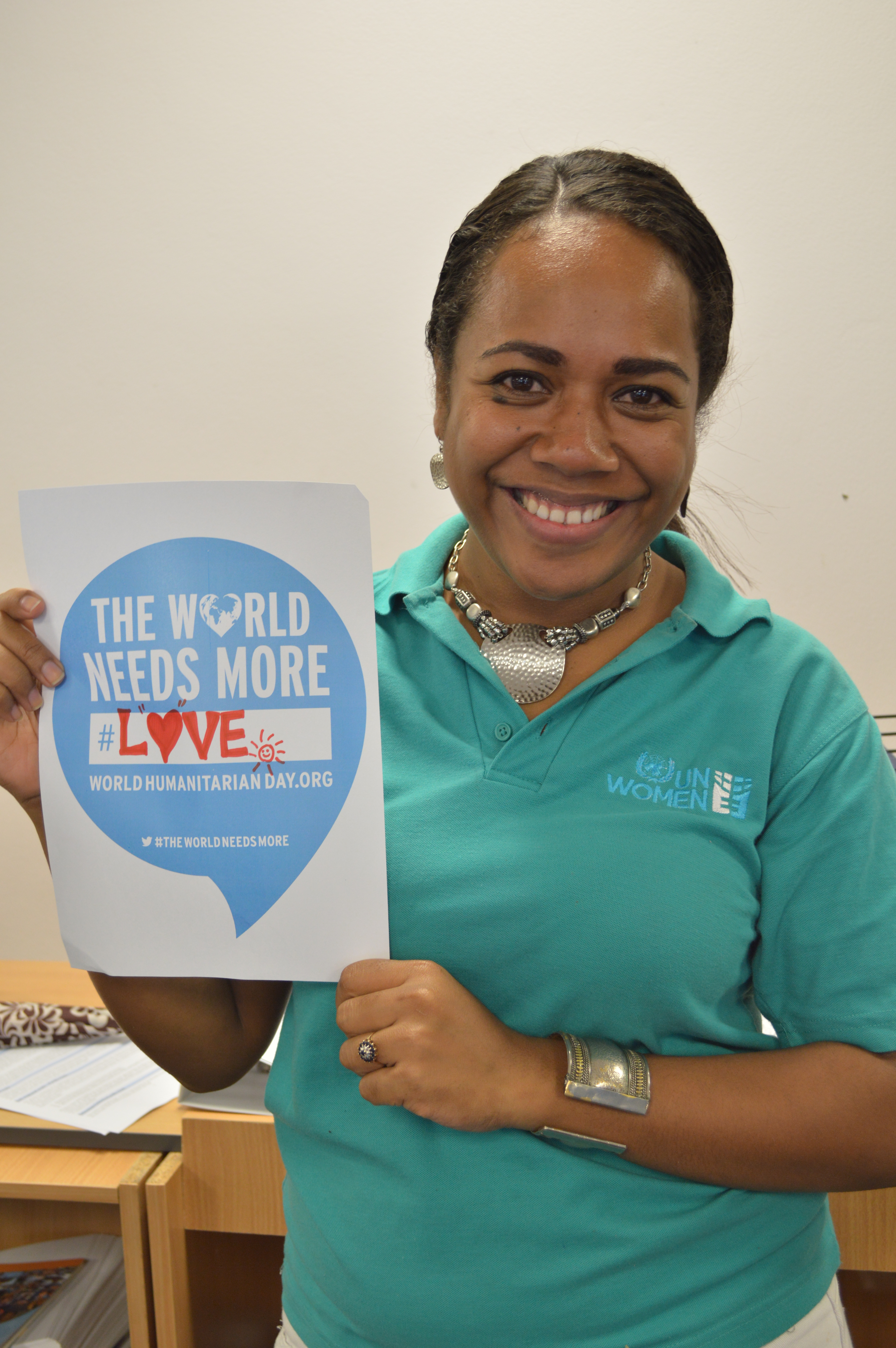 World Humanitarian Day 2013 - The World Needs More....... Photo:UN Women/ Olivia Owen